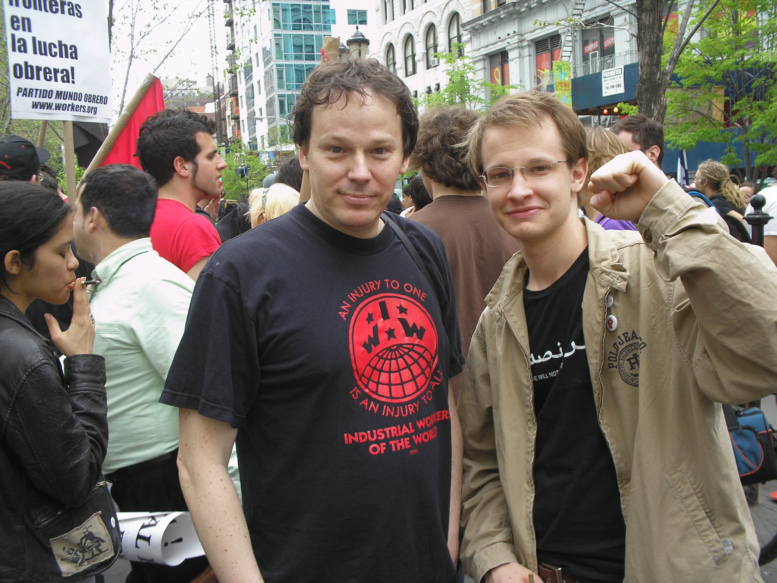 David Graeber (in IWW t-shirt, center) with Brian Kelly at a May Day immigrant rights rally at NYC's Union Square. This photograph has been widely reproduced by a variety of publications including Adbusters (Canada) and Profil (Austria).